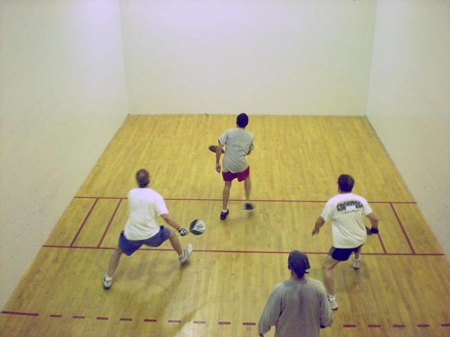 Image depicting the jockeying for position in a doubles paddleball rally.